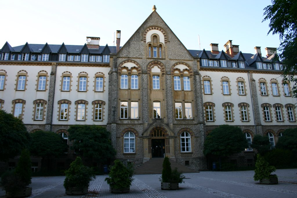 Main Building of the University of Luxemburg, Campus Limpertsberg